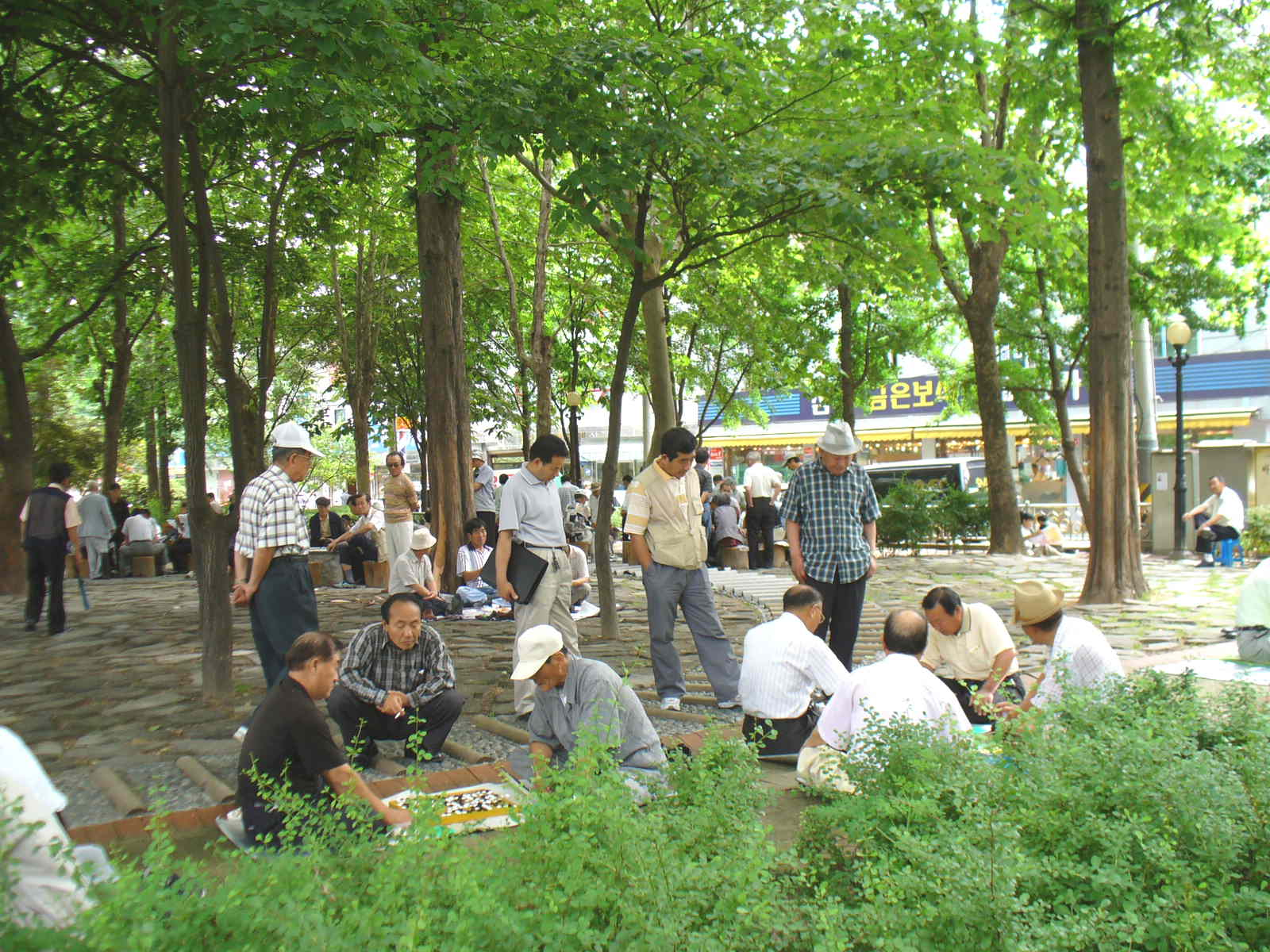 Right outside the entrance to the shrine is a park which is a popular gathering place, especially for older Korean men to visit, dance and drink.